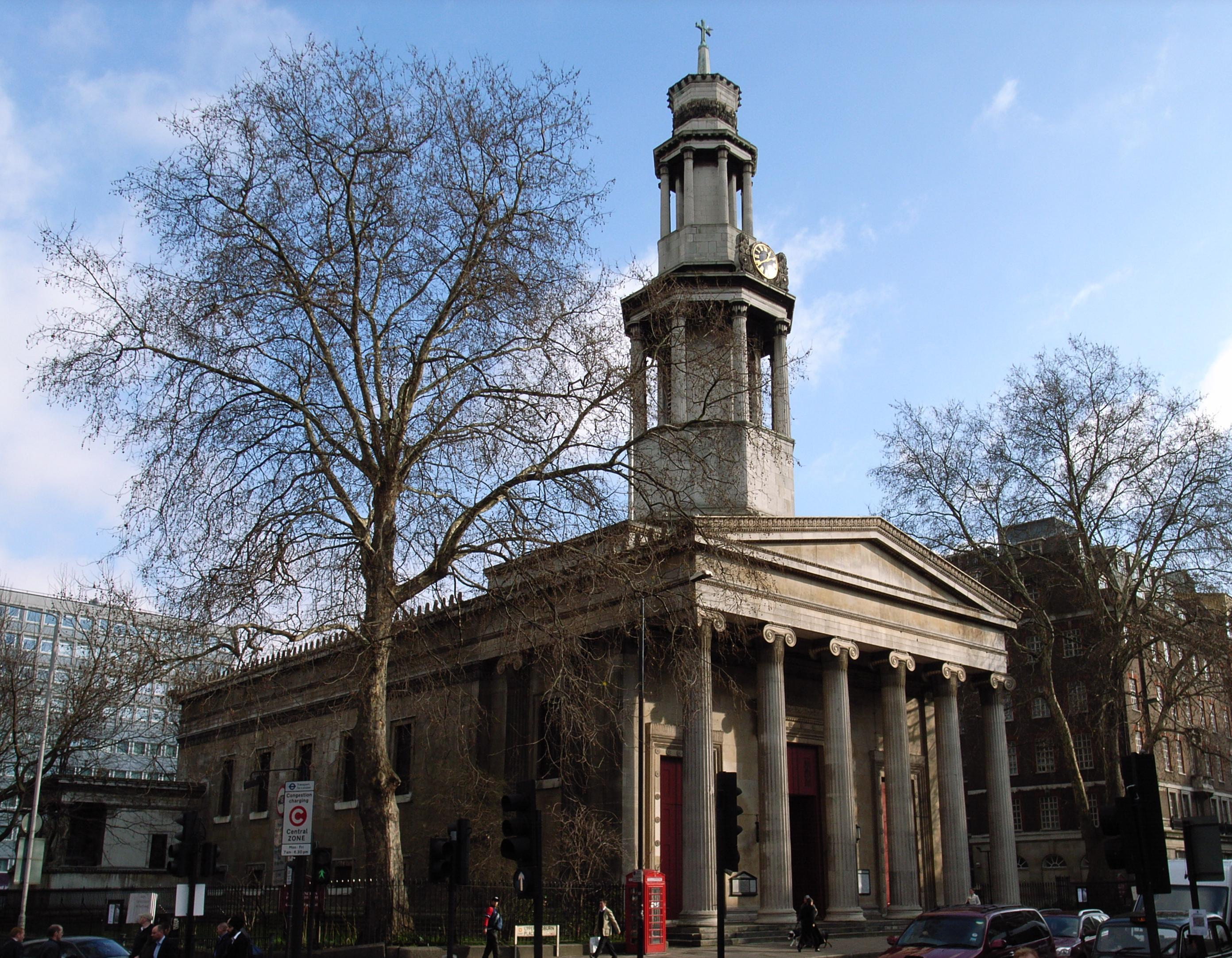 Image taken by: Steve Cadman Description:New St Pancras Parish Church (1819-22), Euston Road, London.